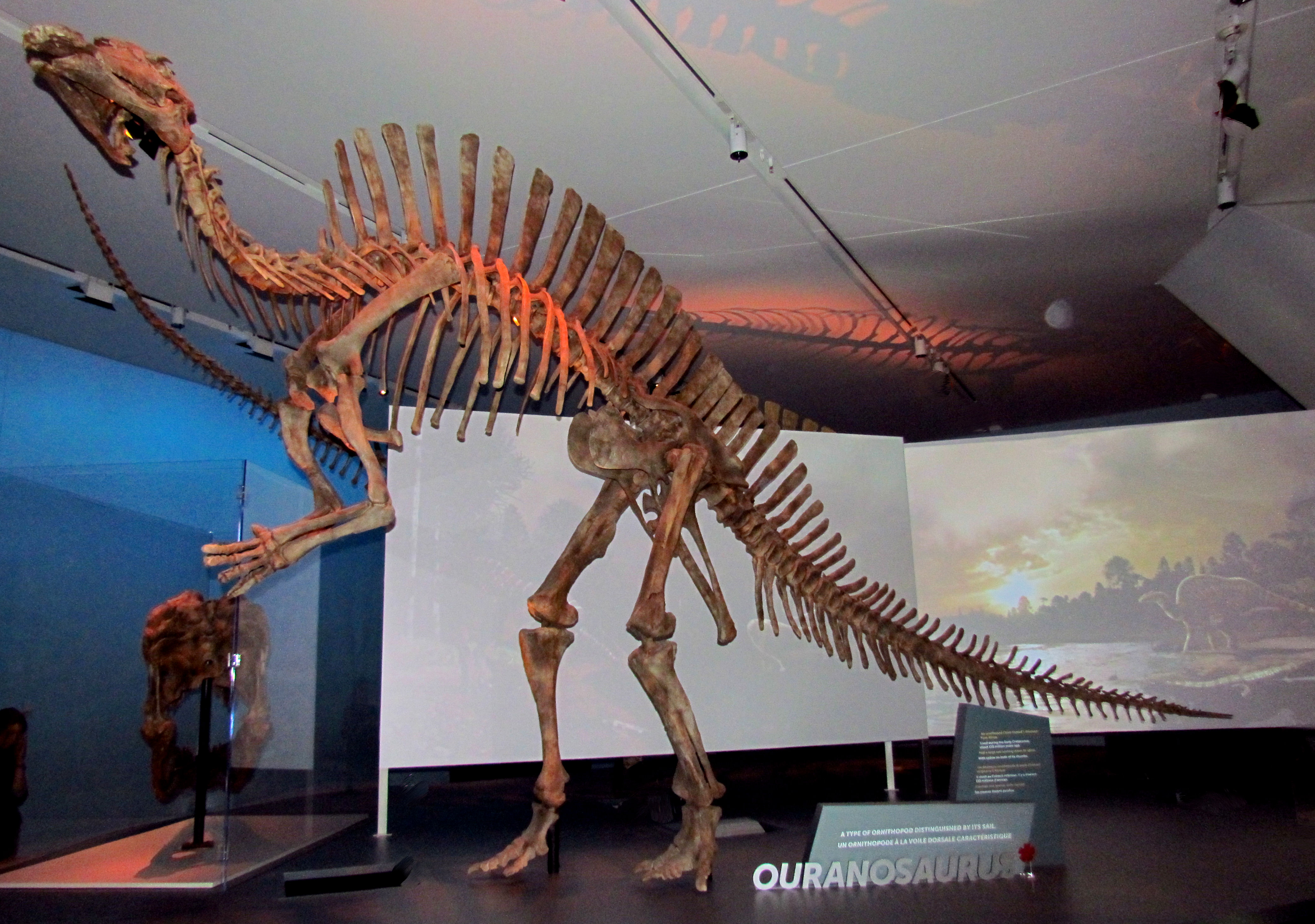 Ouranosaurus nigeriensis, Royal Ontario Museum, Toronto, Ontario, Canada